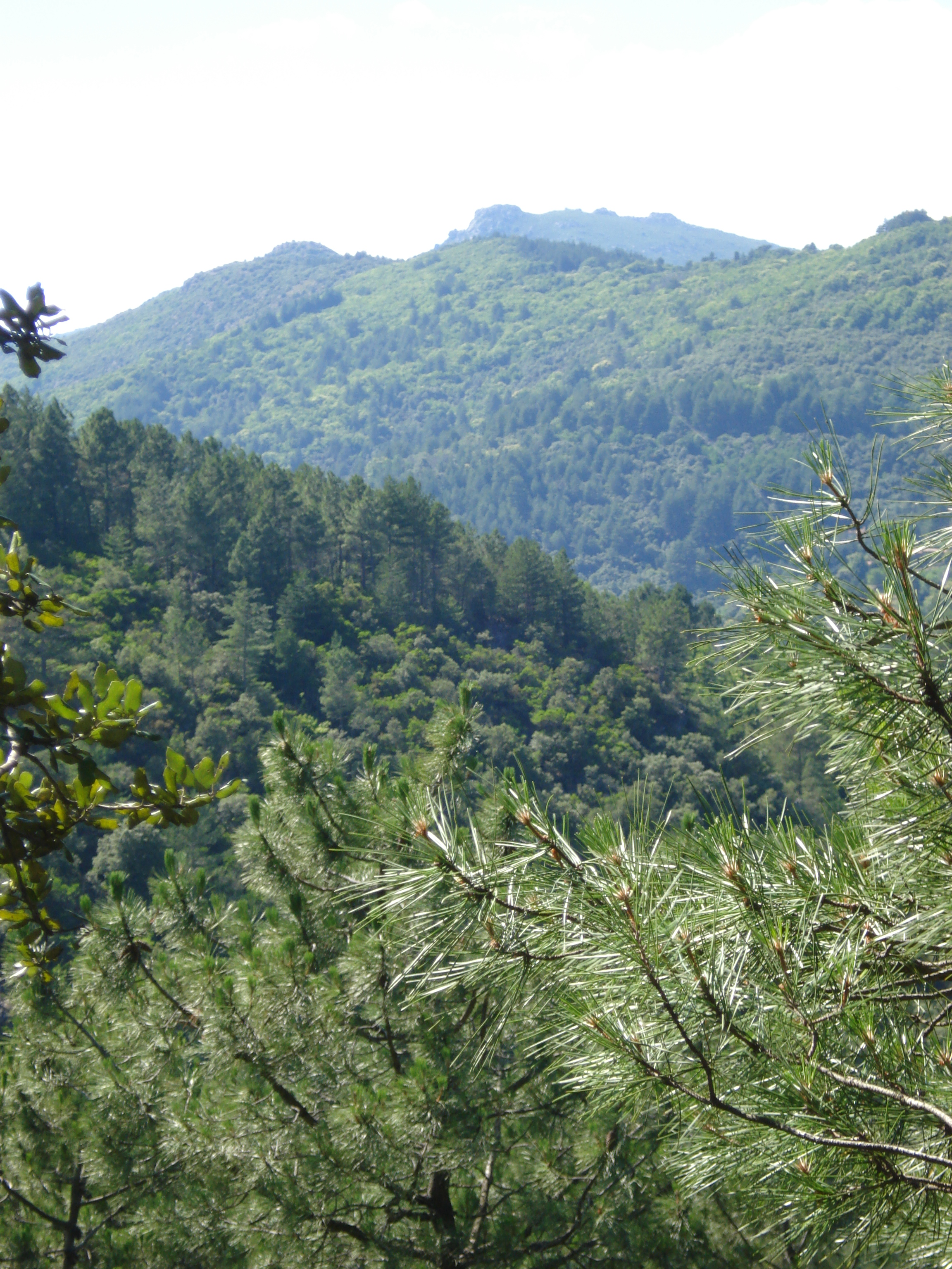 Génolhac (Gard, Fr), landscape of Cevennes.